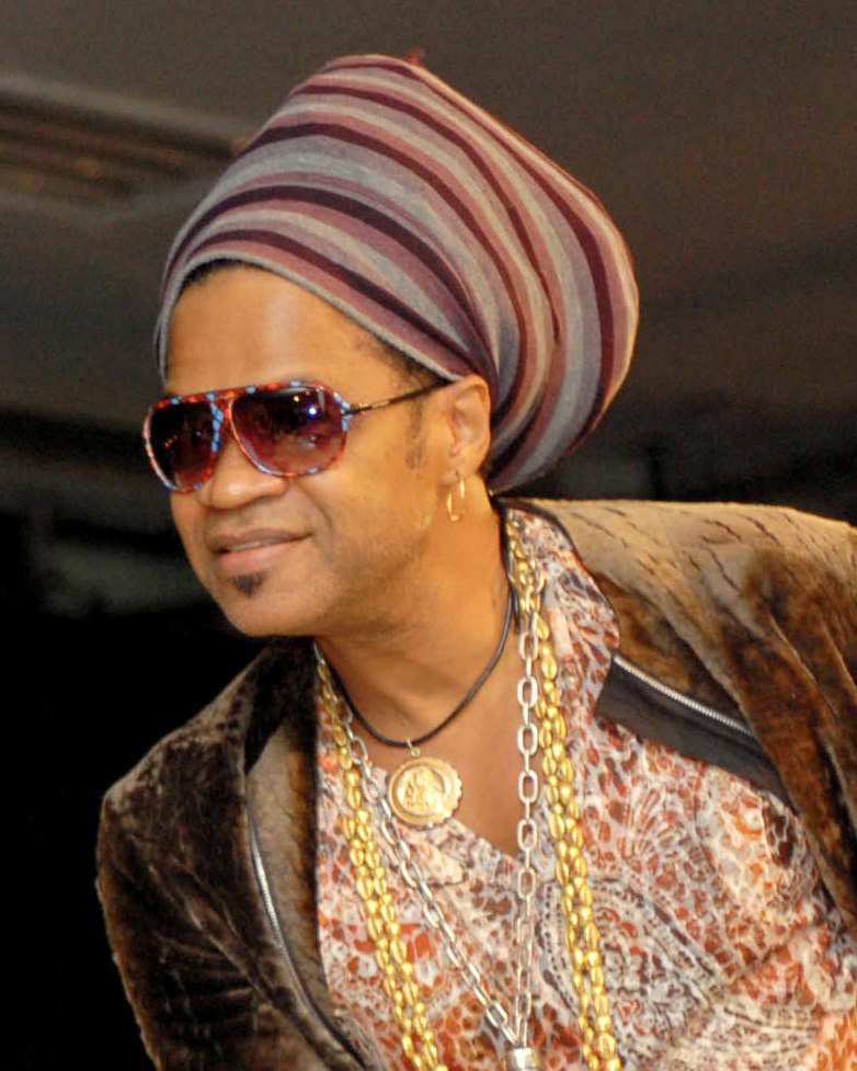 Brazilian singer Carlinhos Brown.